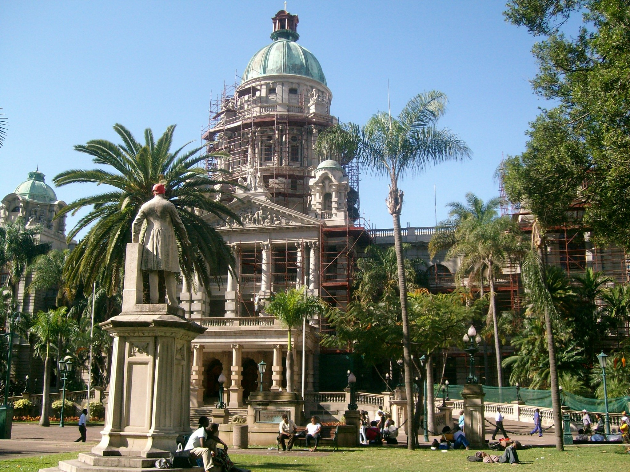 Durban, Kwa-Zulu Natal. This media shows a South African Protected Site with SAHRA file reference 9/2/407/0010.